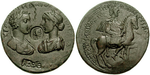 CARIA, Stratonikeia. Caracalla, with Plautilla. 198-217 AD. Æ 37mm (21.22 gm). Struck 202-205 AD. Tiberius Claudius Dionysius, magistrate. AV KAI M AVP AN KAI QE CEB NE PLAUTILLA, Laureate, draped bust of Caracalla facing diademed and draped bust of Plautilla; c/m's: helmeted head of Athena right in incuse circle, QEOY in incuse rectangle / EPI TON PER TB KL DI[ONU CION] CTPATONIKEIWN, Zeus Panamaros on horseback right, holding transverse sceptre and approaching flaming altar.